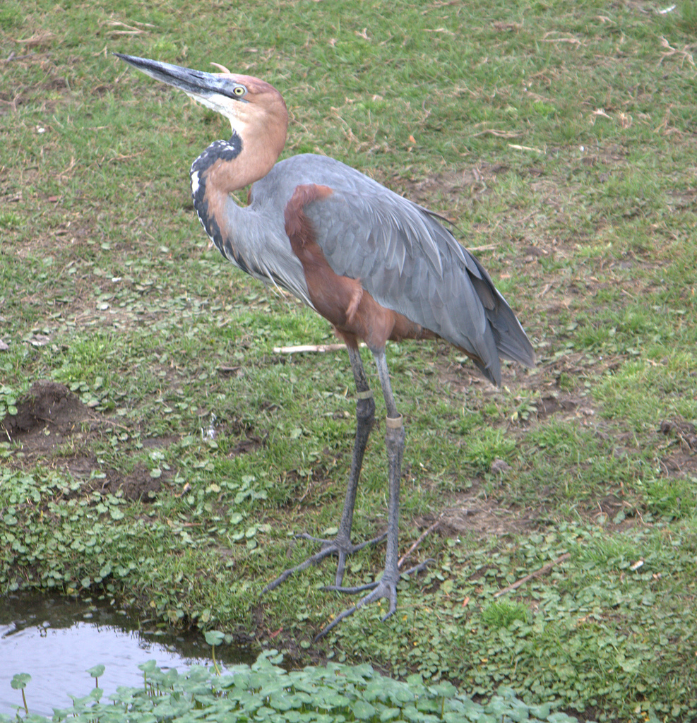 Goliath heron